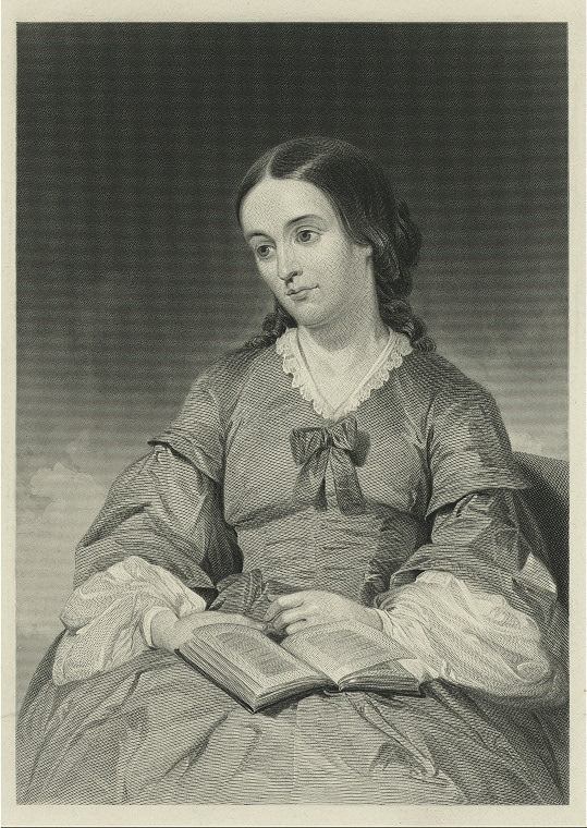 Sarah Margaret Fuller Ossoli (1810-1850) a journalist, critic and women's rights activist.